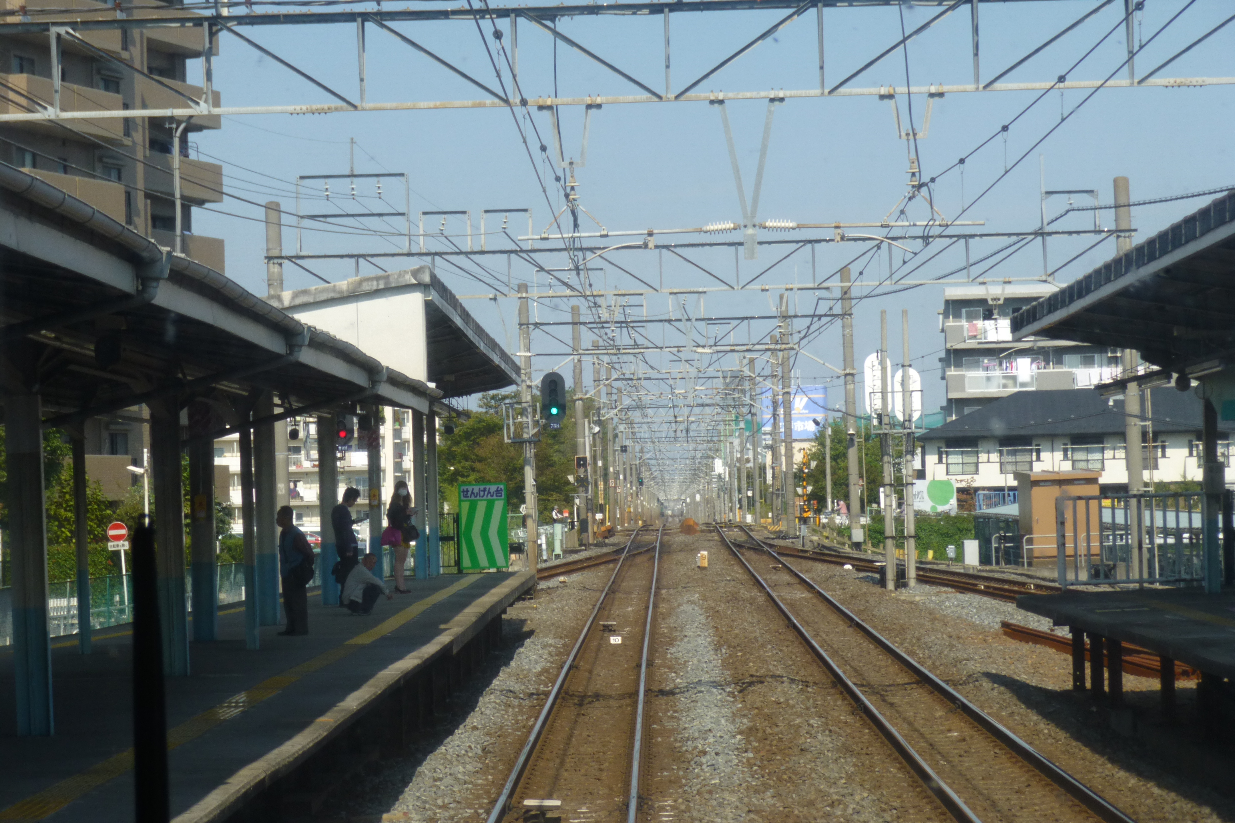 Sengendai Station on the Tobu Isesaki Line in Koshigaya, Saitama Prefecture, Japan